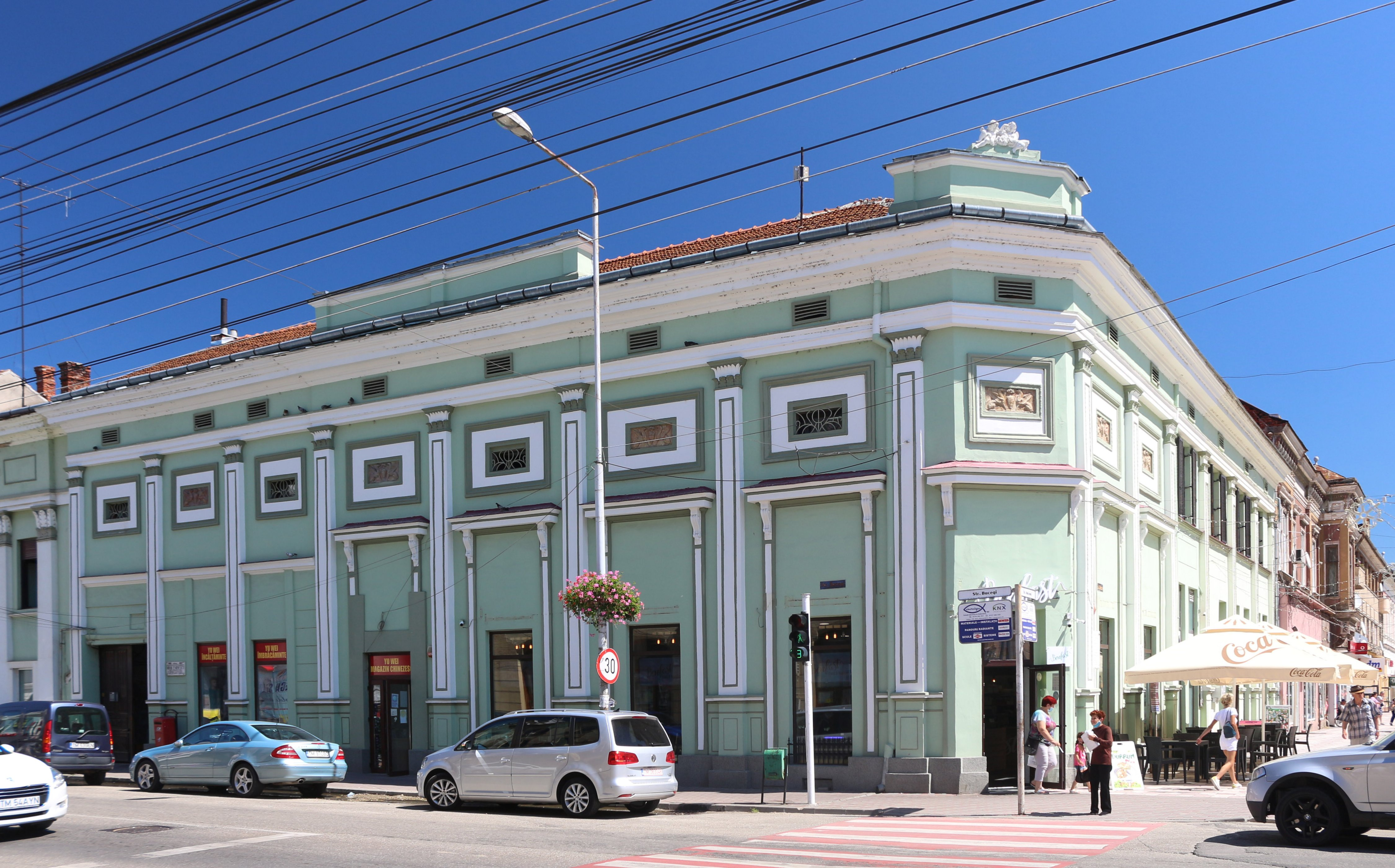 The old theater, Bucegi St., no. 2, Lugoj, Romania, built 1835.